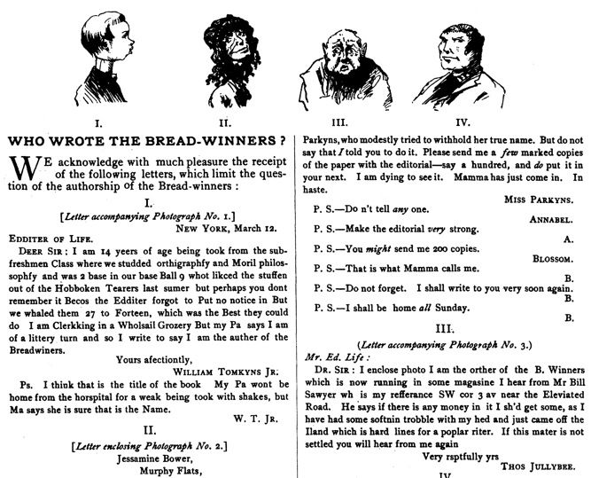 Excerpt from Life magazine's joking speculation about who wrote The Bread-Winners, the sensational 1884 anonymous bestseller